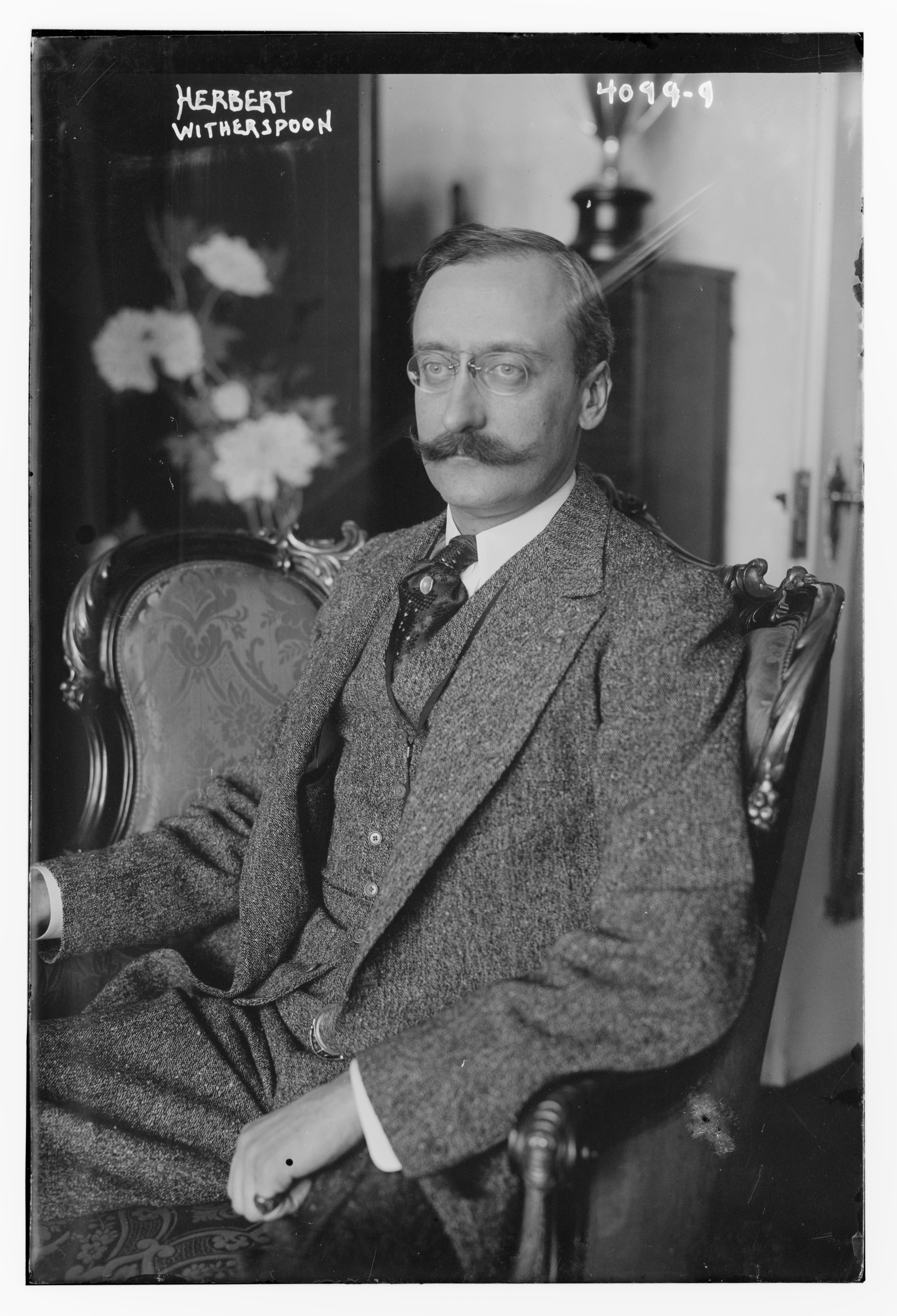 Herbert Witherspoon (July 21, 1873 – May 10, 1935) circa 1915